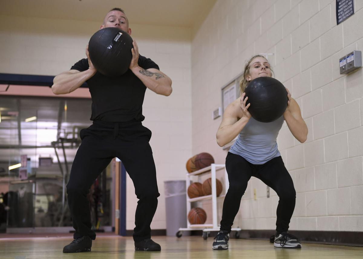 Heavy medicine ball throws for distance by U.S. airforce personnel. Copyright public domain as per stated here